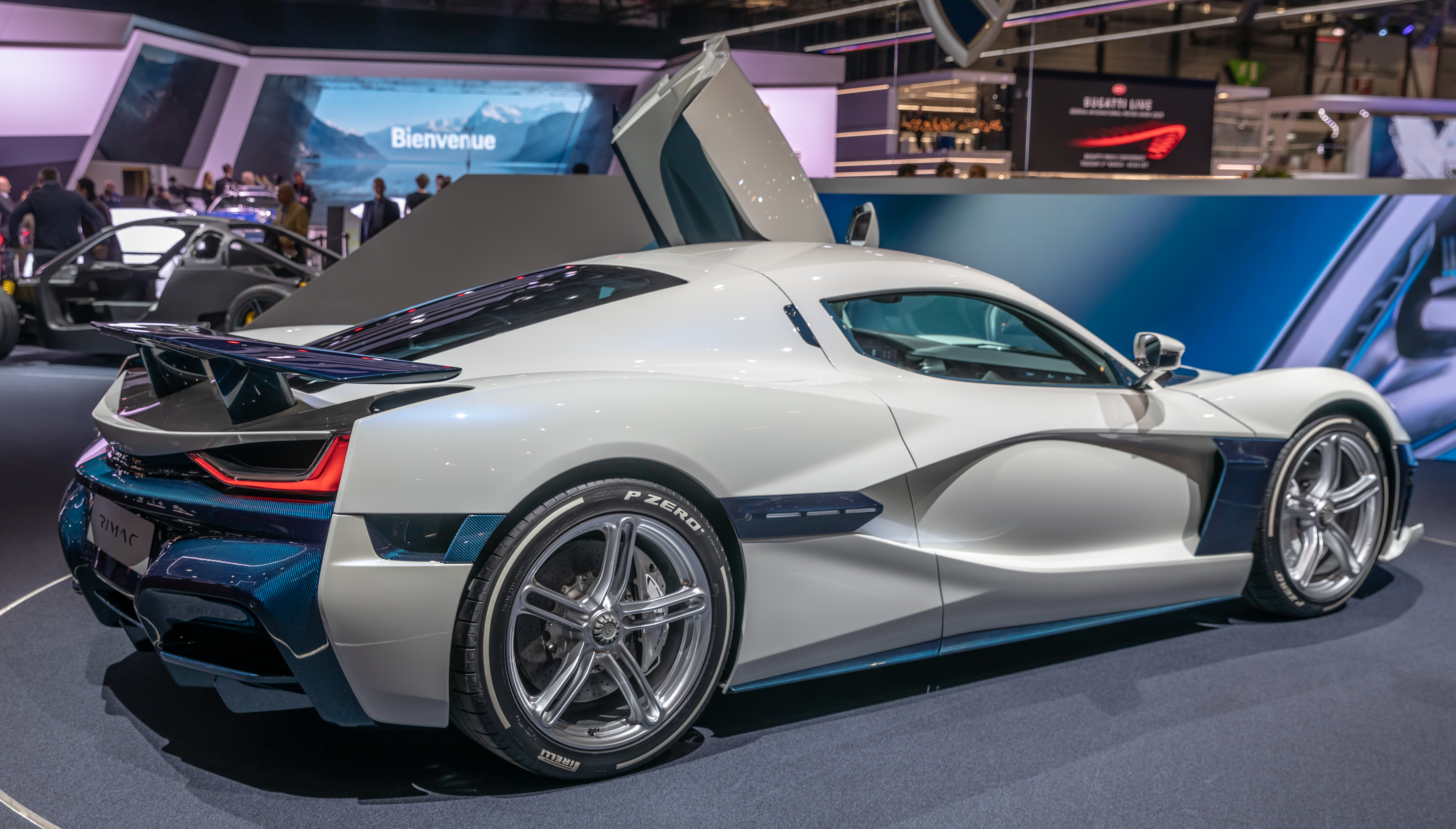 Rimac C-Two at Geneva International Motor Show 2019, Le Grand-Saconnex